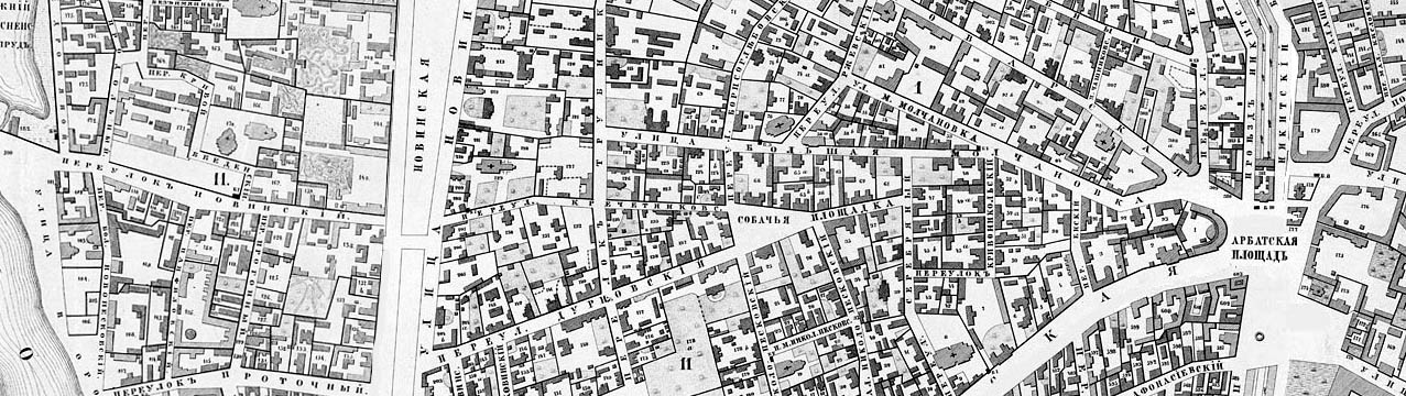 Map of Moscow, 1853. Site of present-day New Arbat Street